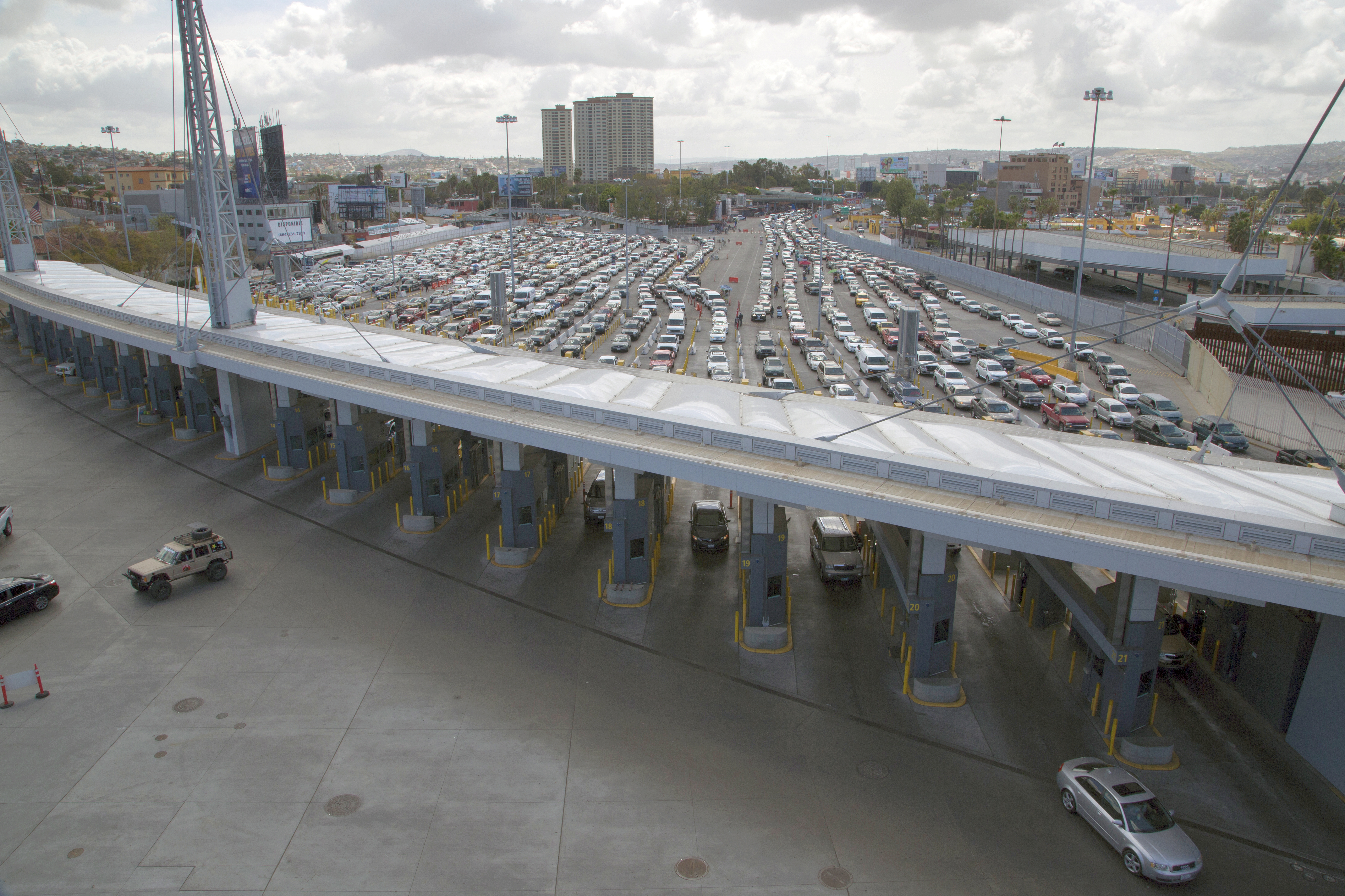 San Ysidro: CBP San Diego Operations - From a roof top, vehicle traffic is seen crossing into the United States from Mexico through U.S. Customs and Border Protection at the San Ysidro border port of entry. Photographer: Donna Burton